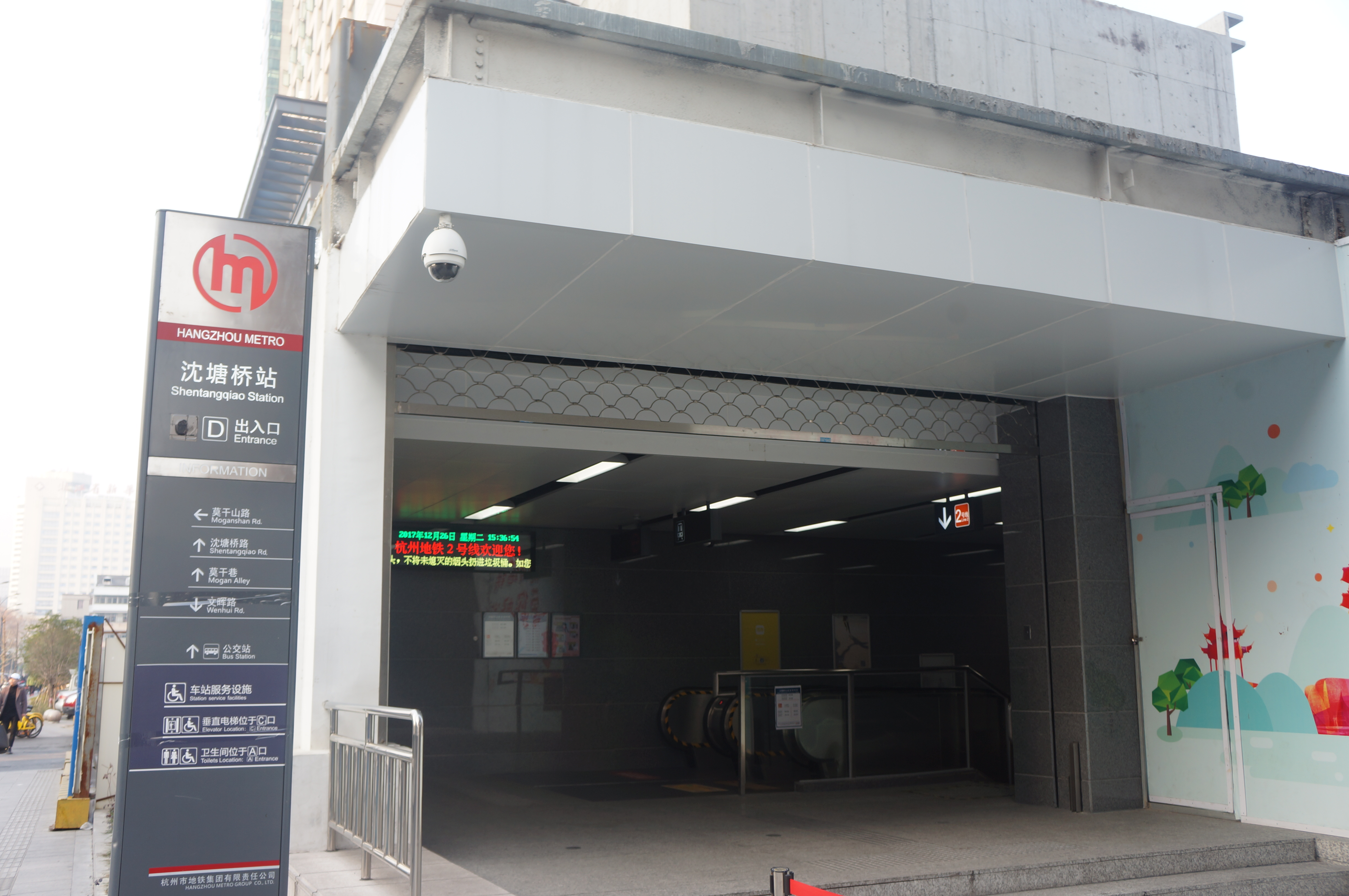 201712 Exit D of Shentangqiao Station